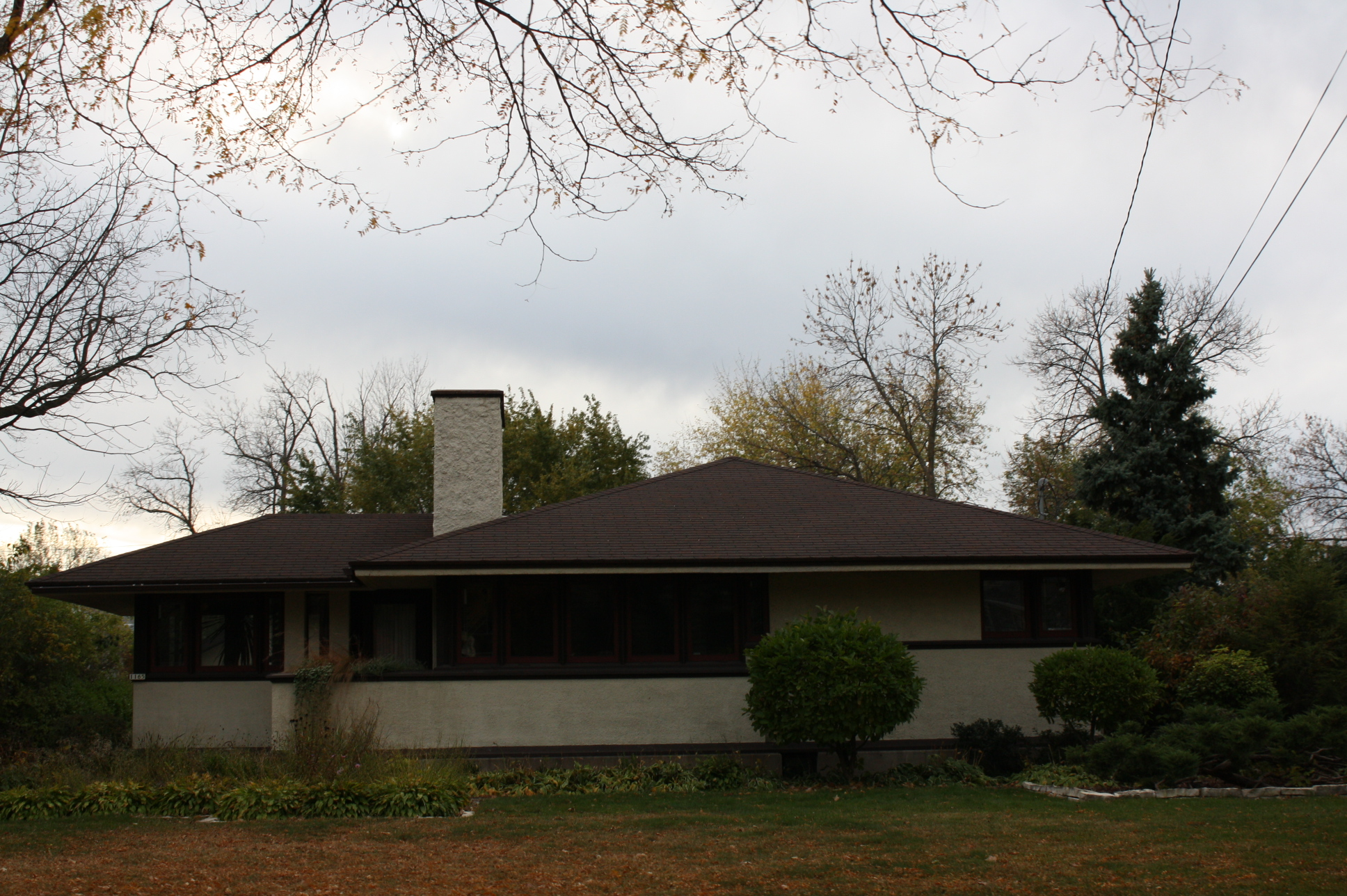 The Stephen M. B. Hunt House II in Oshkosh, Wisconsin, one of the American System-Built Homes designed by Frank Lloyd Wright.